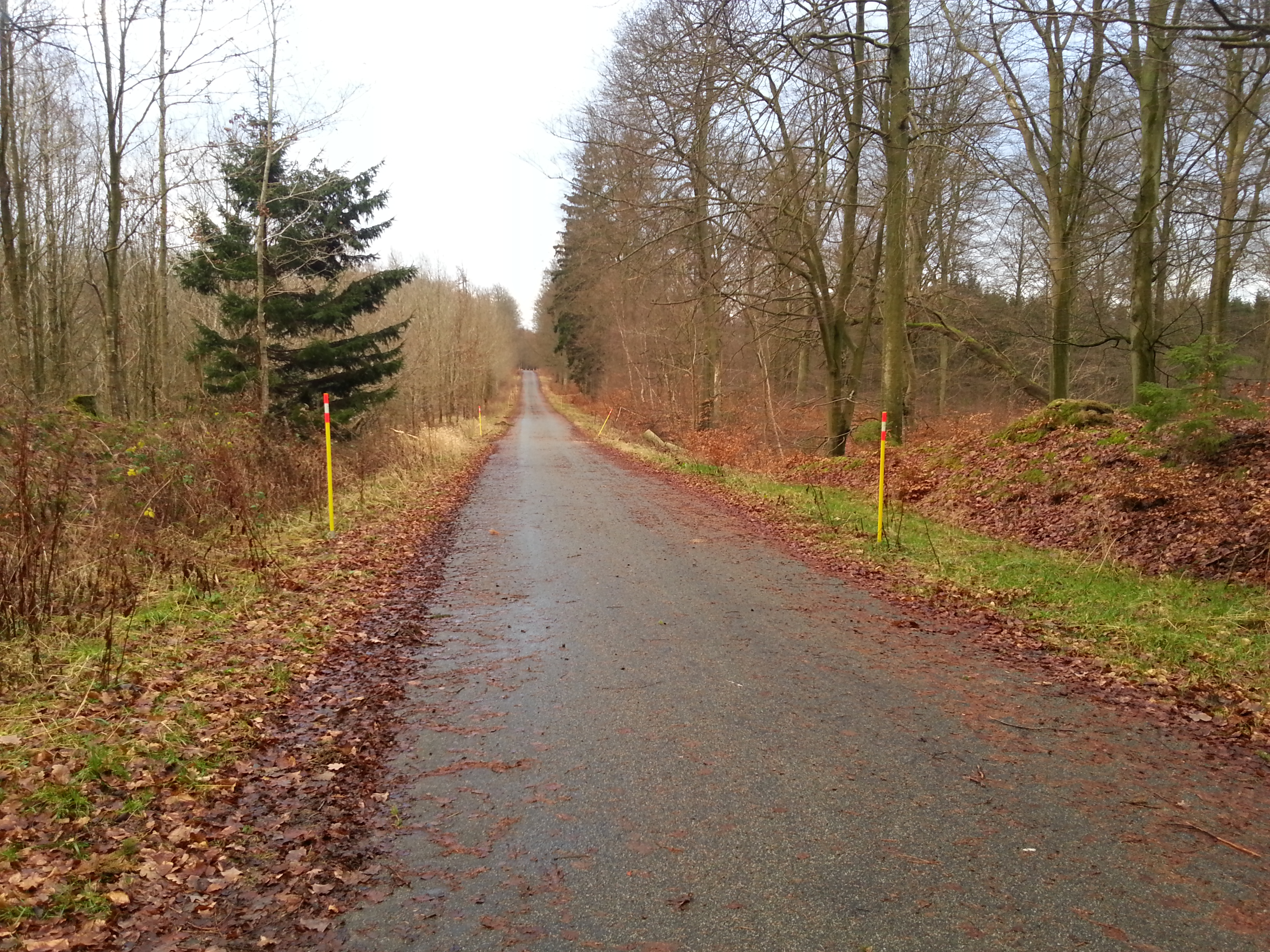 Old road in Nyrup Hegn 2